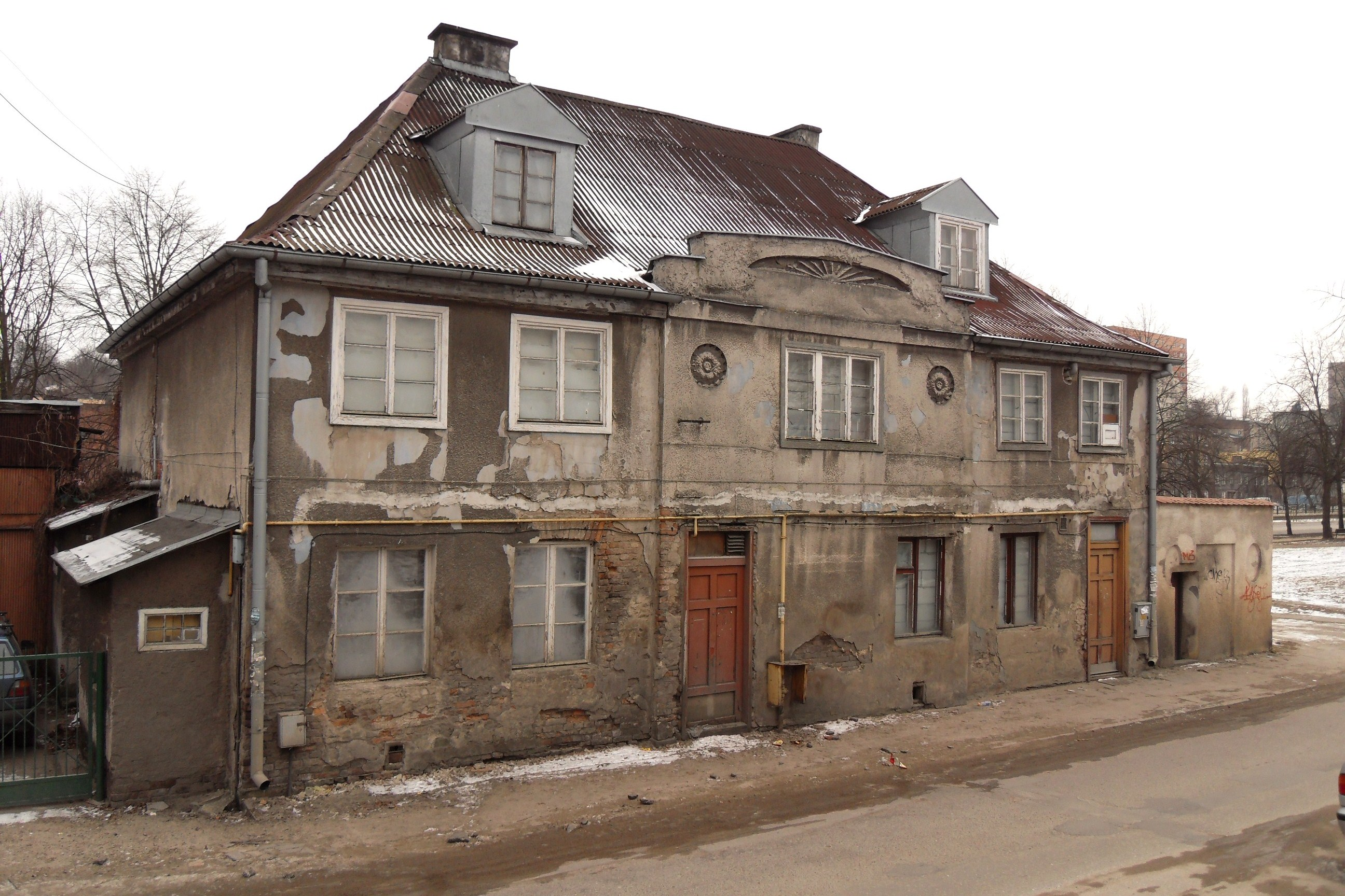 124a Kartuska Street in Gdańsk, 18th Century.